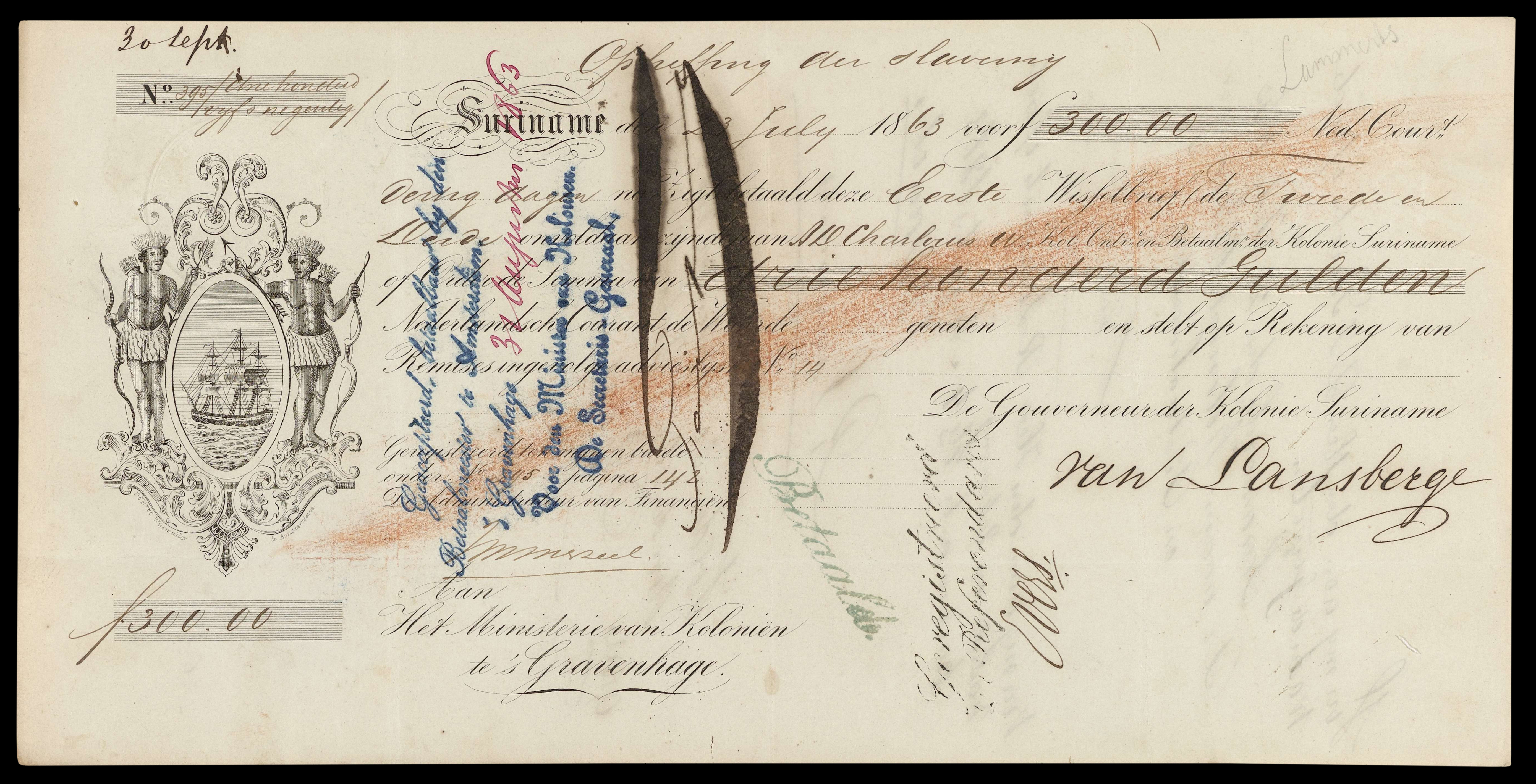 A bill for reimbursement to a slave owner, in the value of 300 gulden, following the freeing of the slaves in Suriname in 1863. Signed by van Lansberg, colonial governor